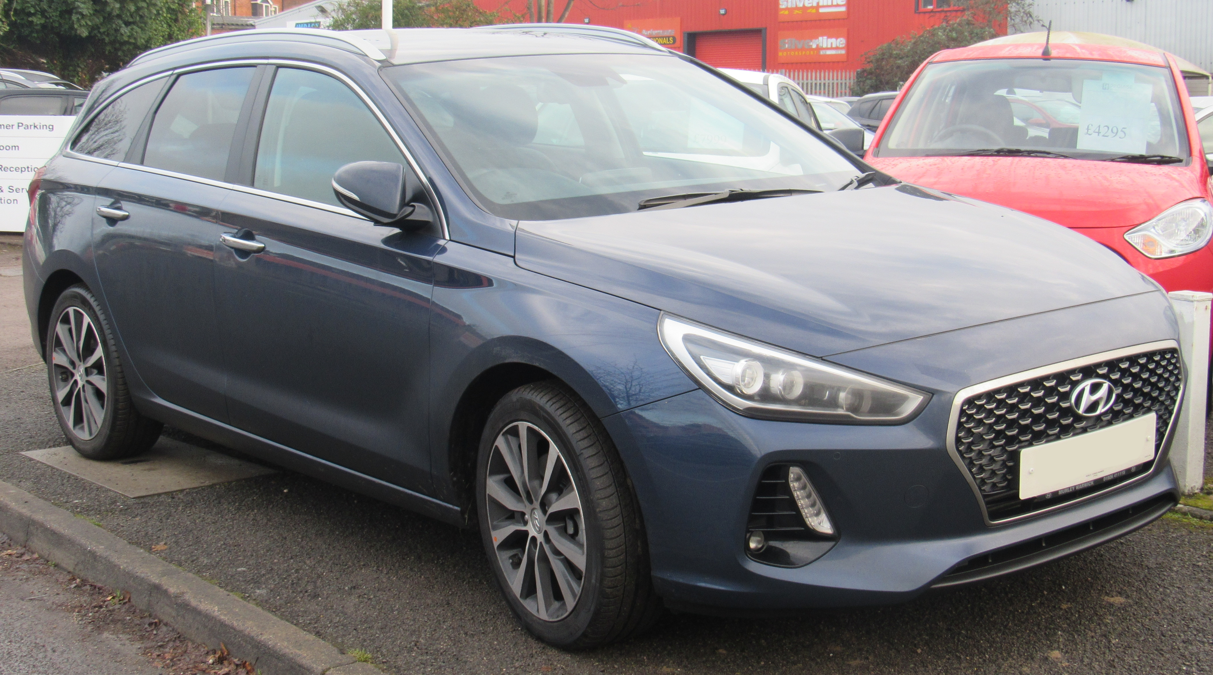 2017 Hyundai i30 Premium T-GDi Estate 1.4 Front Taken in Warwick